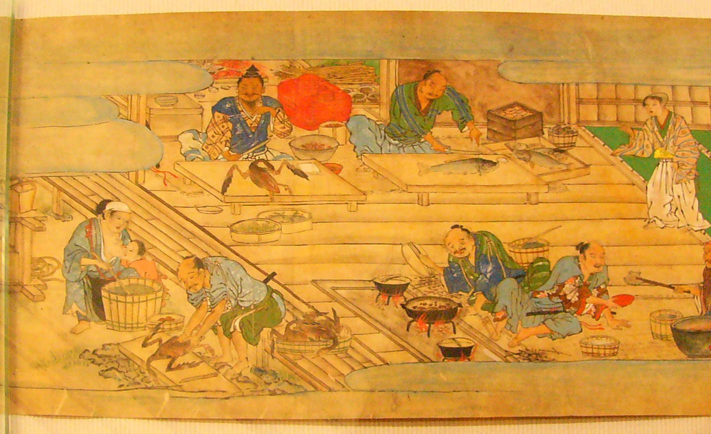 Shuhanron Emaki Bunkacho（Agency for Cultural Affairs of Japan) attributed to Kano Motonobu